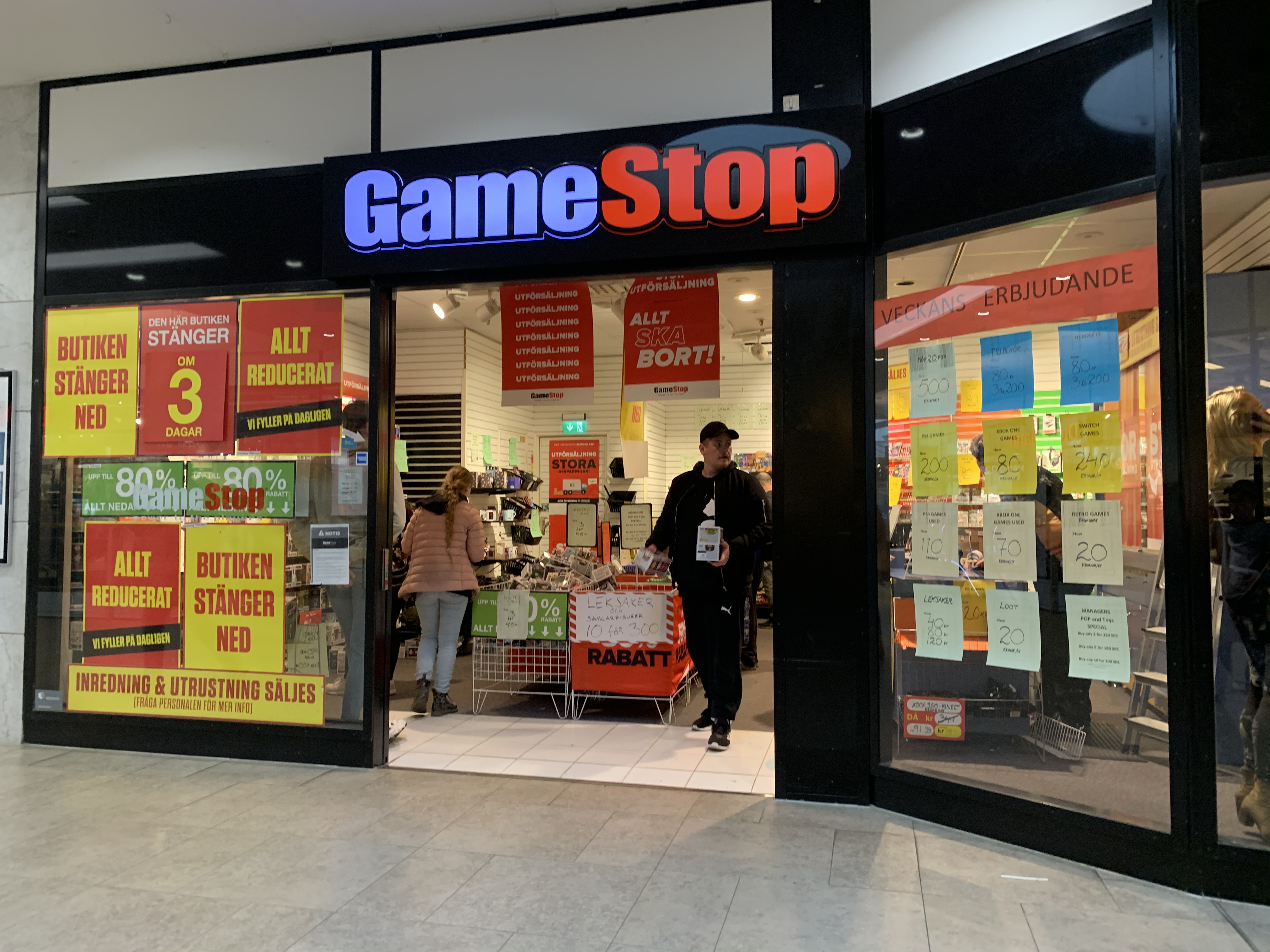 GameStop in Globen Shopping.